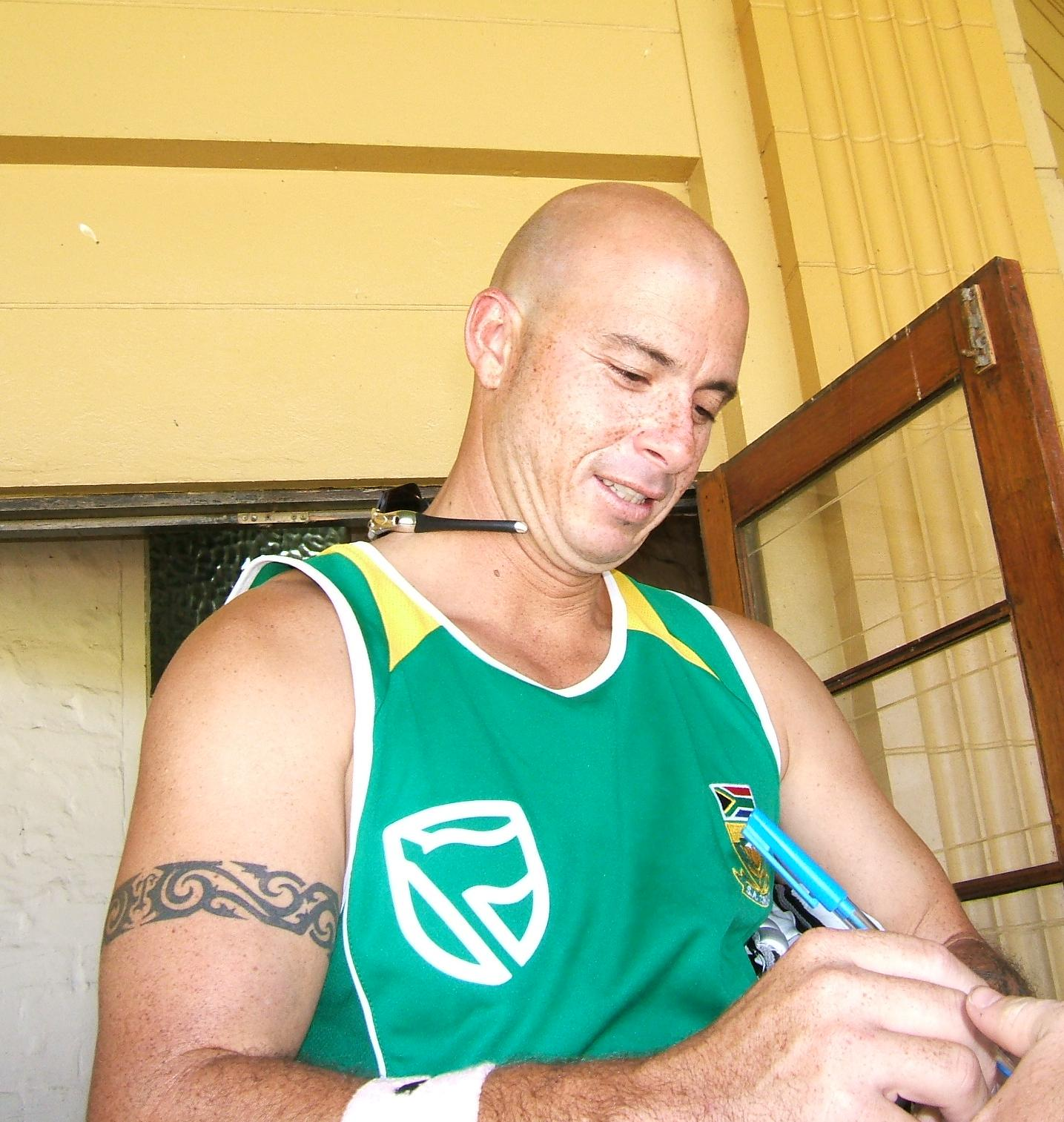 Herschelle Gibbs at a training session at the Adelaide Oval